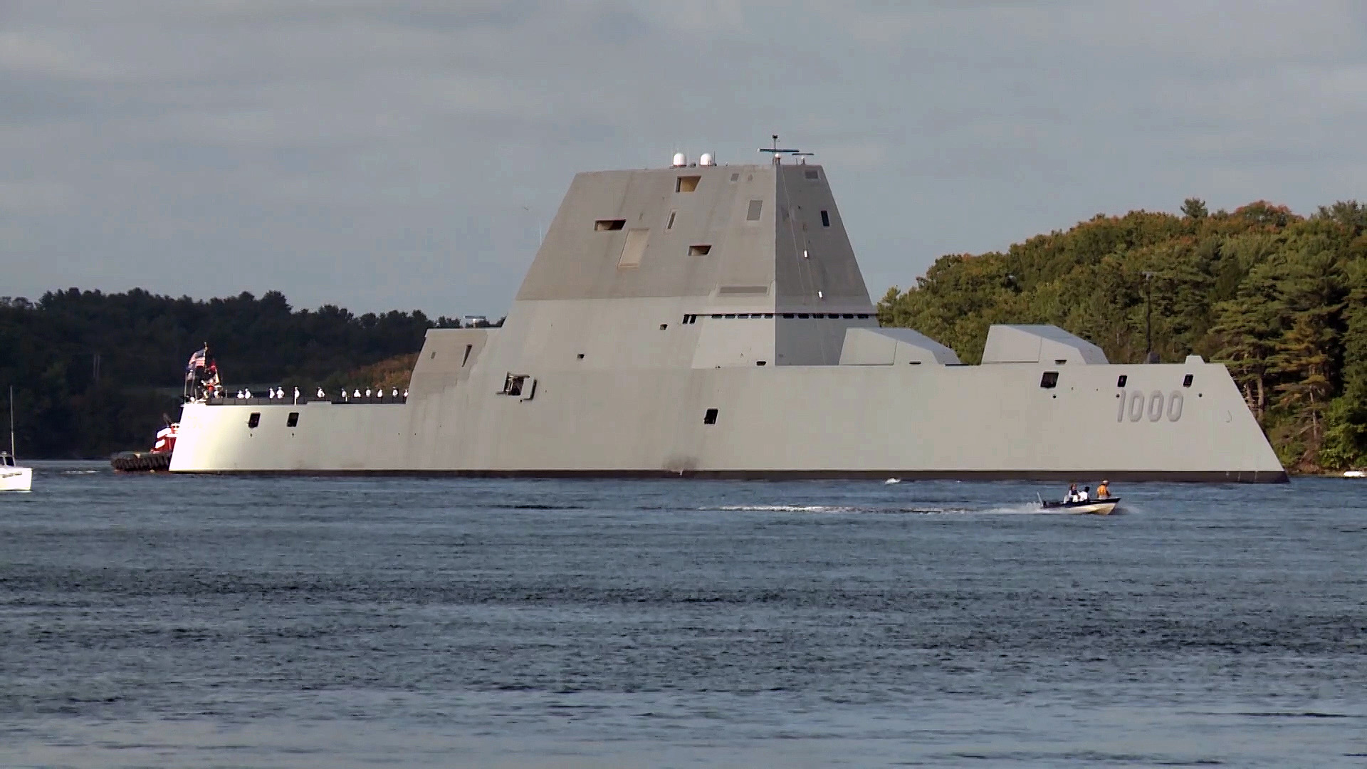 Video frame grab showing the guided missile destroyer USS Zumwalt (DDG-1000) departing Bath Iron Works marking the beginning of a 3-month journey to its new homeport in San Diego, California (USA). Crewed by 147 Sailors, Zumwalt is the lead ship of a class of next-generation multi-mission destroyers.